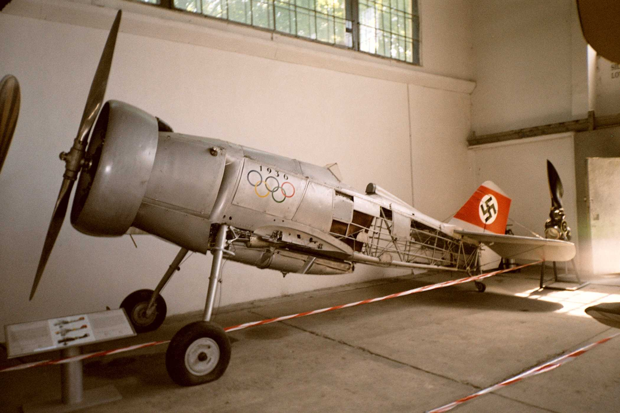 Szymon Wlazlowski, Cracow 2005. The sole surviving Curtis Hawk Export, piloted by Ernst Udet during the 1936 Summer Olympics.